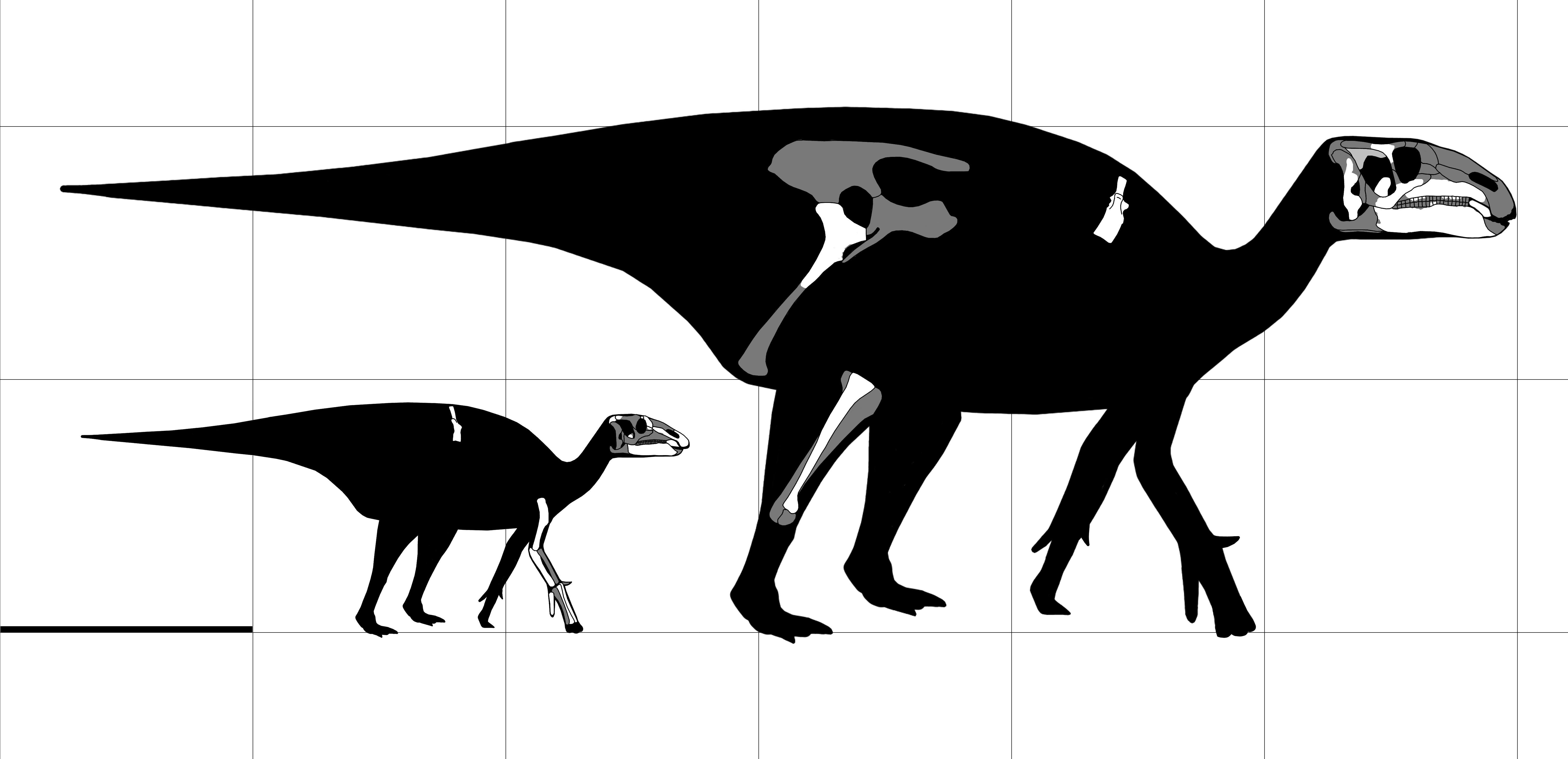 Skeletal diagram comparing Eolambia holotype (adult) and OMNH v864 (juvenile). Scale bar and grid = 1 meter.